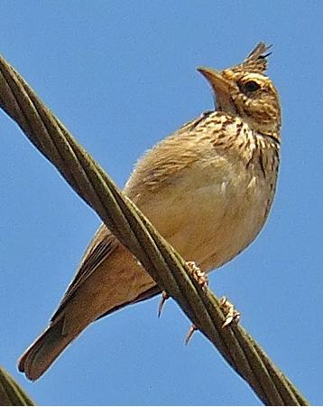 Galerida malabarica Malabar Crested Lark This smallish bird, 15 cm, is a sedentary breeding bird in western India. Very similar to the Crested Lark, which breeds in northern India. It is smaller and dark-streaked reddish brown in plumage, whereas the Crested Lark is grey. The belly is white. The sexes are similar.